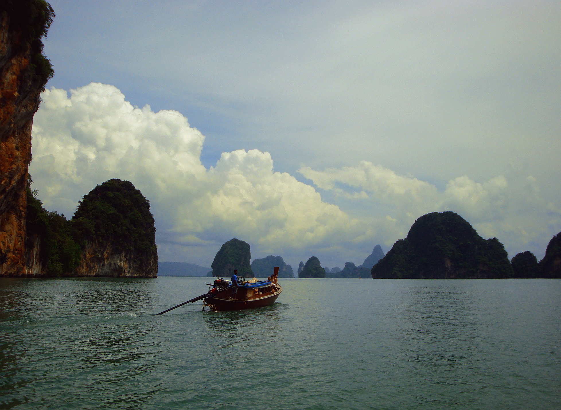 Islets in Phang Nga Bay